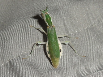 Adult female Gambian Spotted-eye Flower Mantis